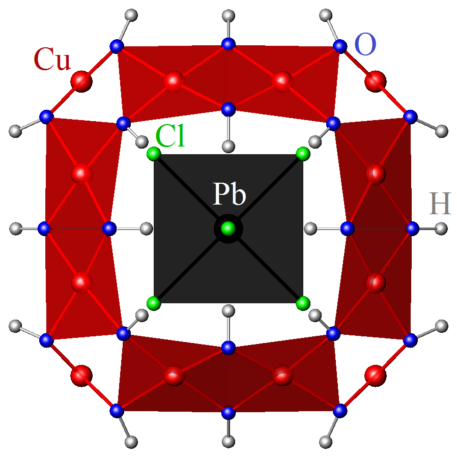 Crystal structure of the cumengeite Pb21Cu20Cl42(OH)40·6H2O, I4/mmm, viewed along the [001] direction: copper cage. Black: Pb, red: Cu, green: Cl, blue: O, gray: H.